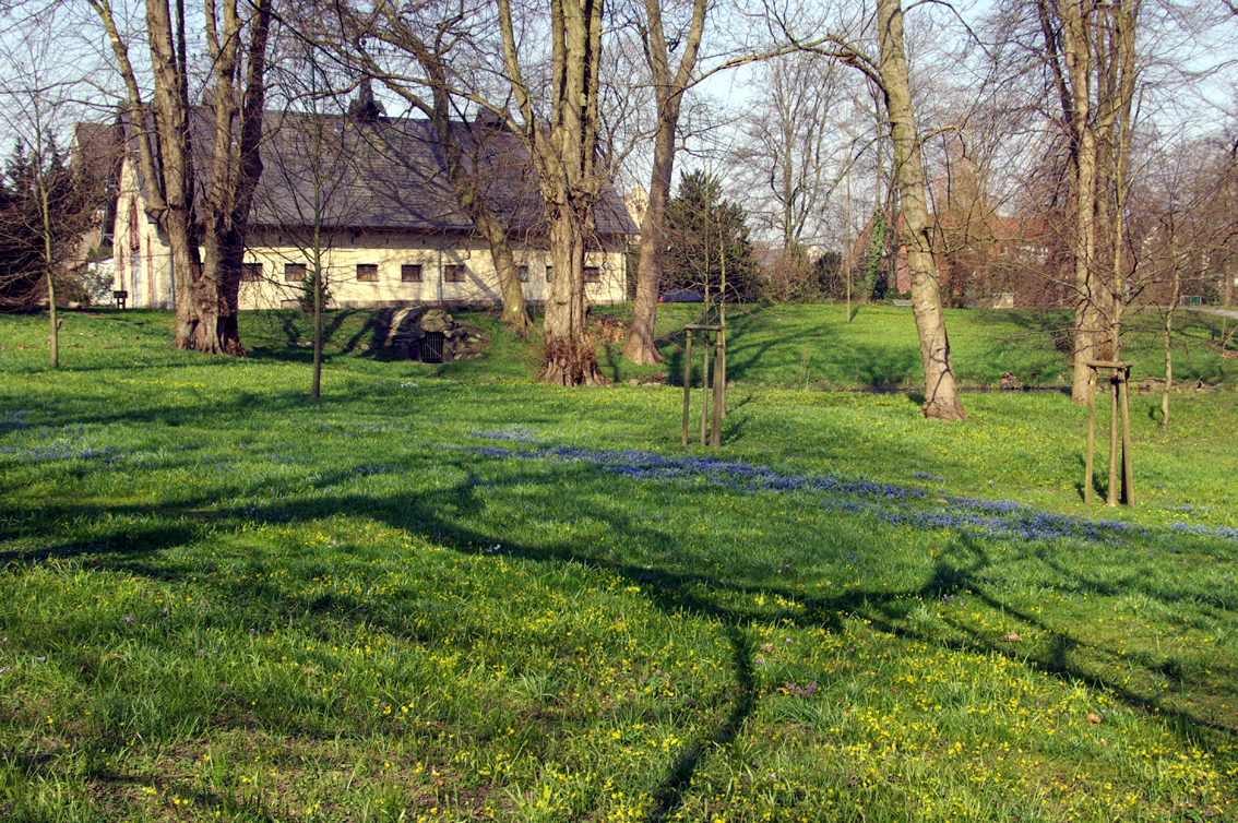 The Ice House in Christiansen Park, Flensburg, with spring flowers.